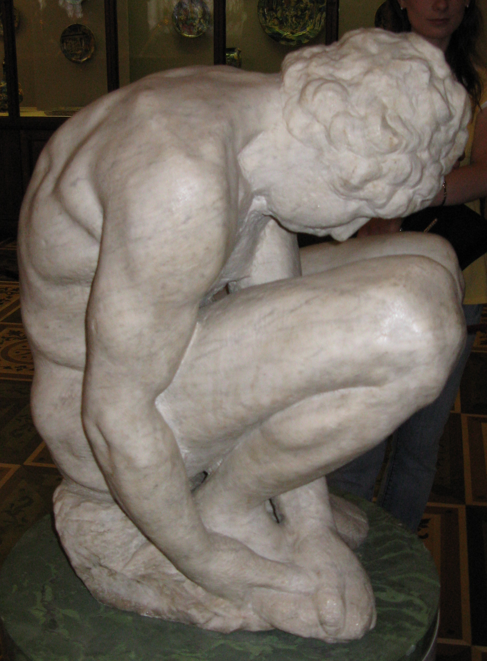 Crouching Boy by Michelangelo Buonarroti at the Hermitage